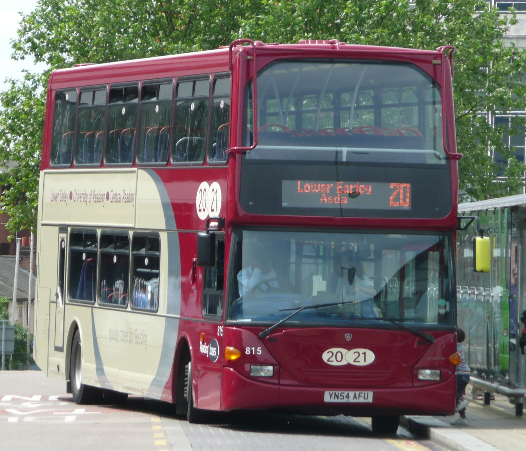 A Reading Transport bus on route 20 in the livery for routes 20 and 21. It is a Scania OmniDekka, registration mark YN54 AFU, fleet number 815.